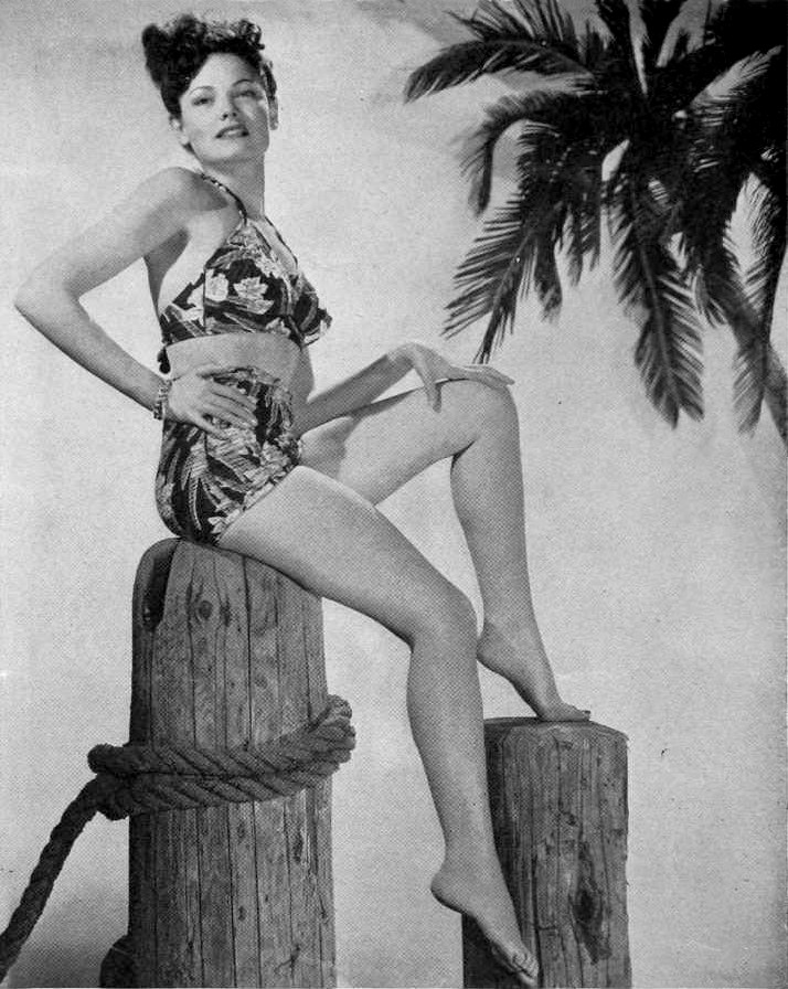 Photo of Gene Tierney for the April 10, 1945 issue of Brief, a United States Army Air Forces Pacific Oceans Areas (AAFPOA) magazine fully staffed by military personnel.